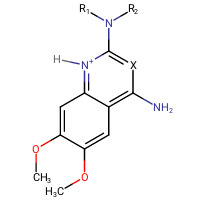 General structure for Alpha 1 blocker